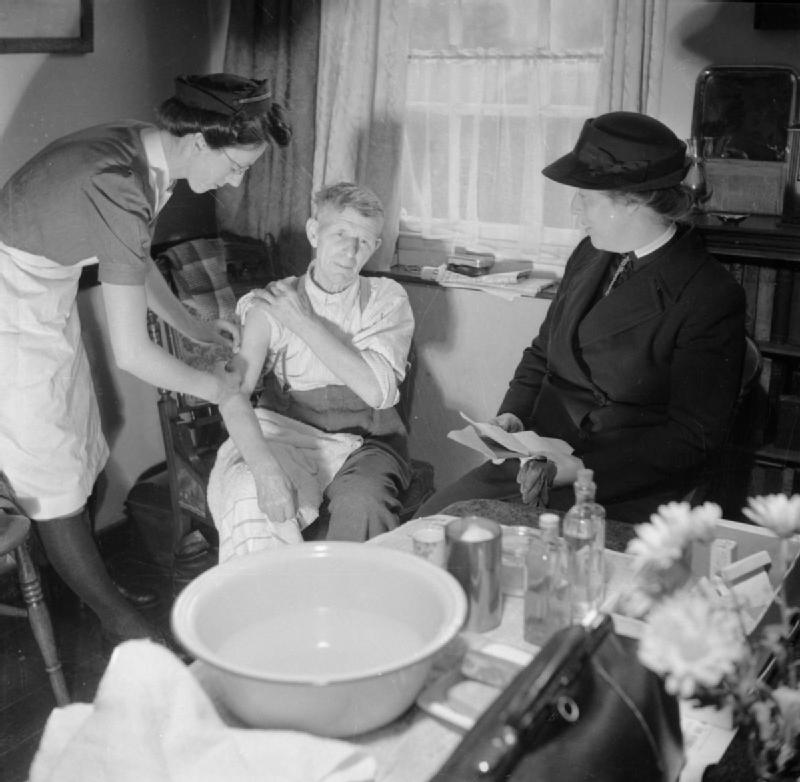 Training Queen's Nurses- District Nurse Training at the Queen's Institute of District Nursing, Guildford, Surrey, England, UK, 1944 In the early stages of her training, a trainee District Nurse (left) injects a diabetes-sufferer with insulin during a home visit. She is accompanied by a Sister (right), on her first rounds. The original caption states that "whilst they are with the patient the sister says nothing, but afterwards she gives nurse her criticism of the way she has handled the case".